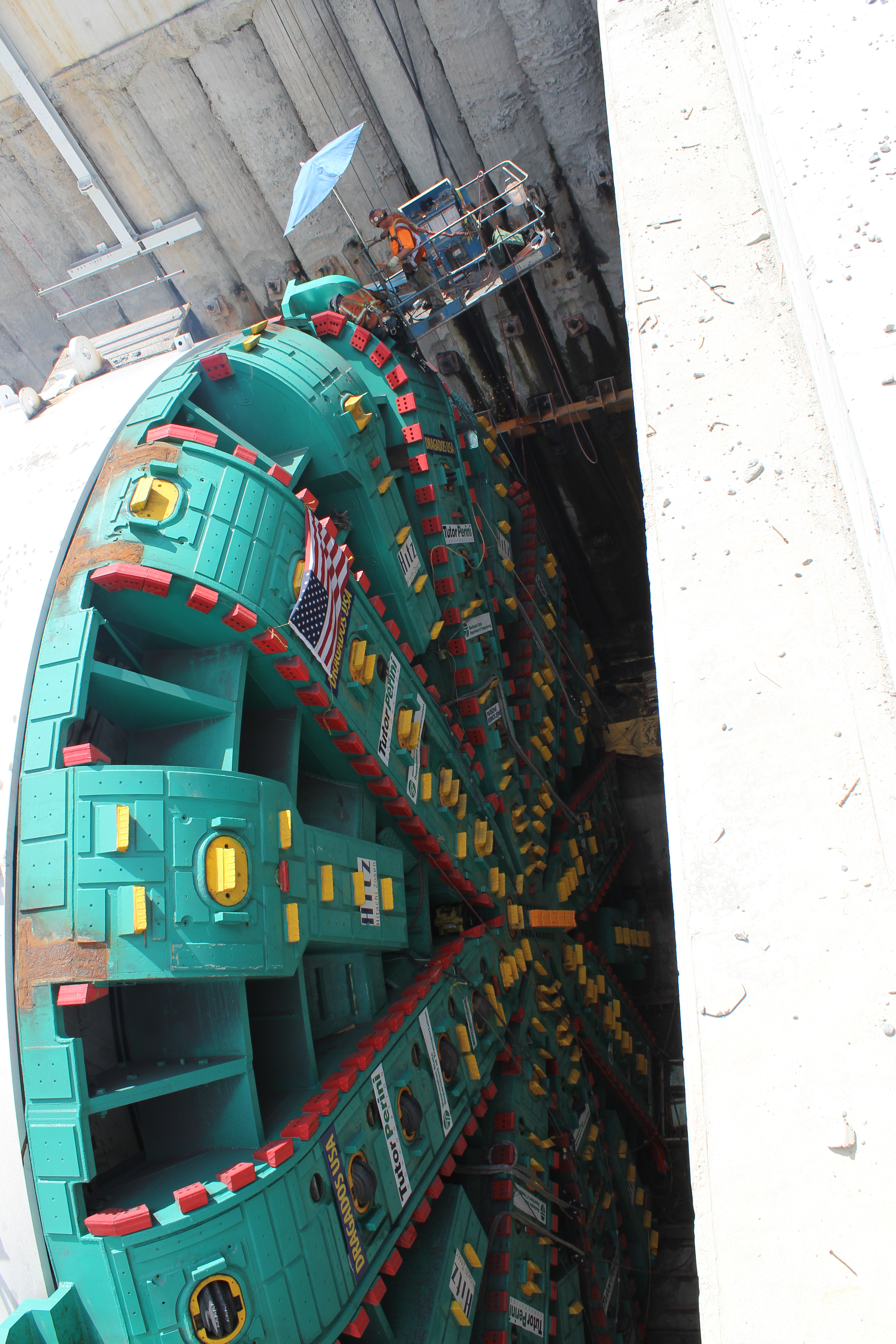 Councilmembers Bagshaw, Burgess and Godden toured Bertha, the world’s largest tunnel boring machine, on Friday, June 28. WSDOT’s project administrator, Linea Laird, provided a close-up look and comprehensively explained how the machine was expected to dig a 1.7 mile long hole underneath the city.